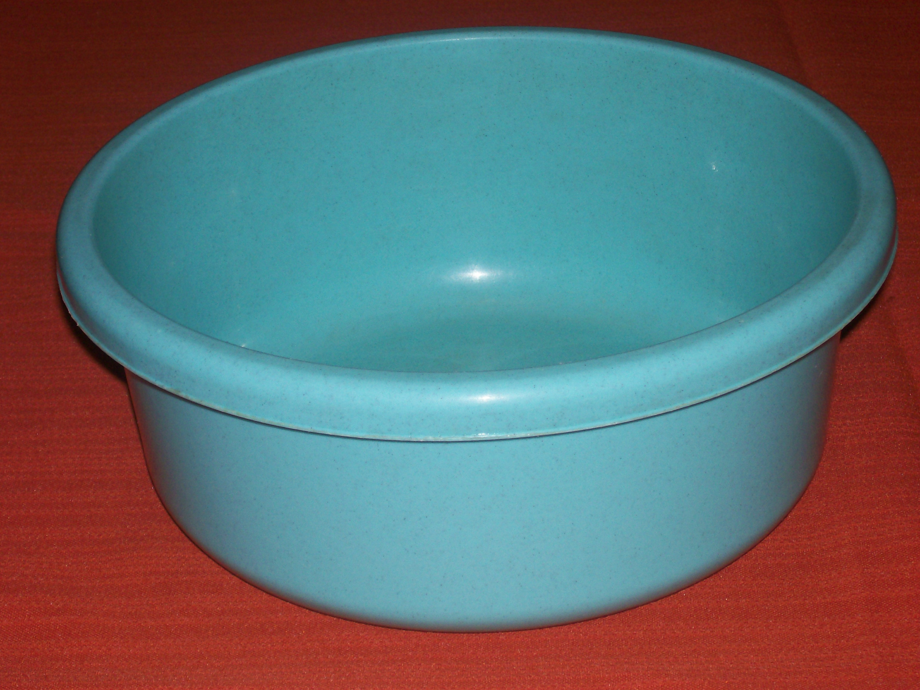 description: Miednica author: Ewkaa